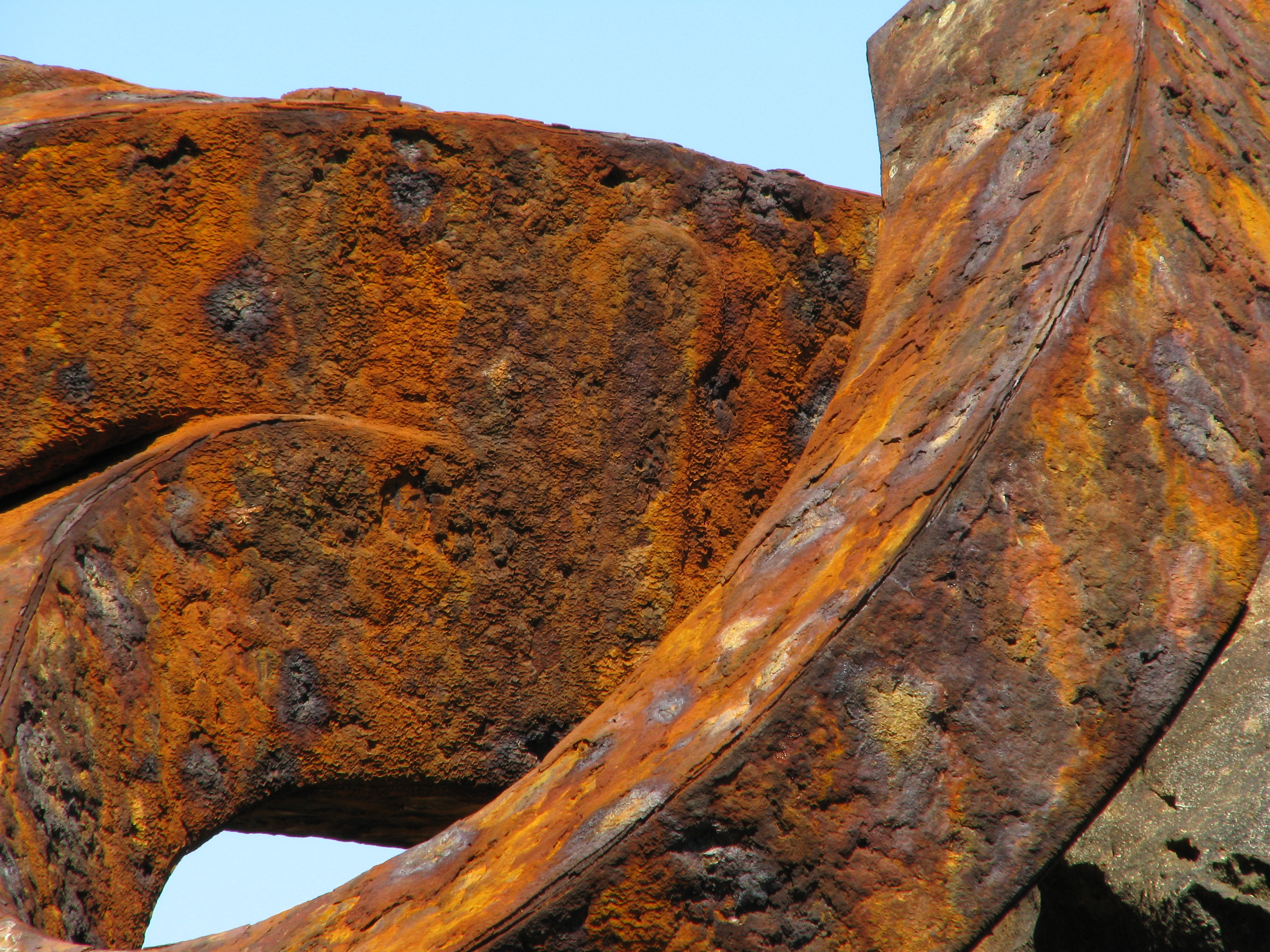 Close view of Haizearen Orrazia